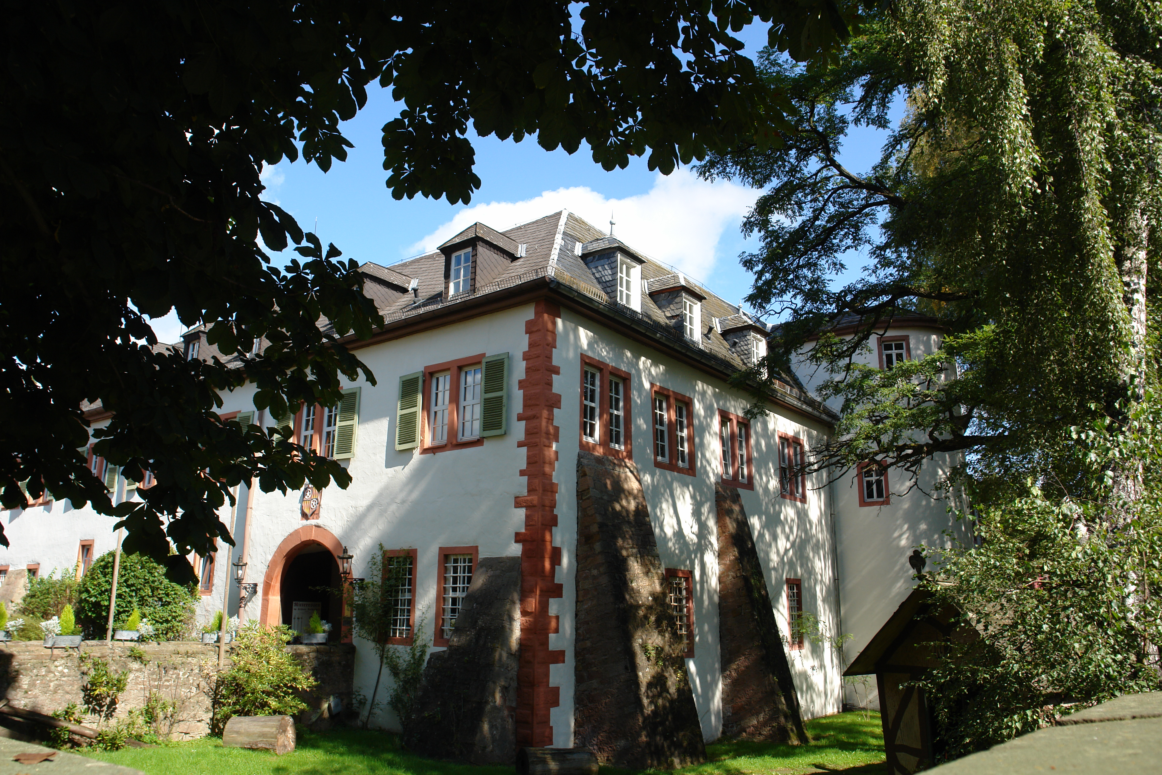 Schloss Rothenbuch